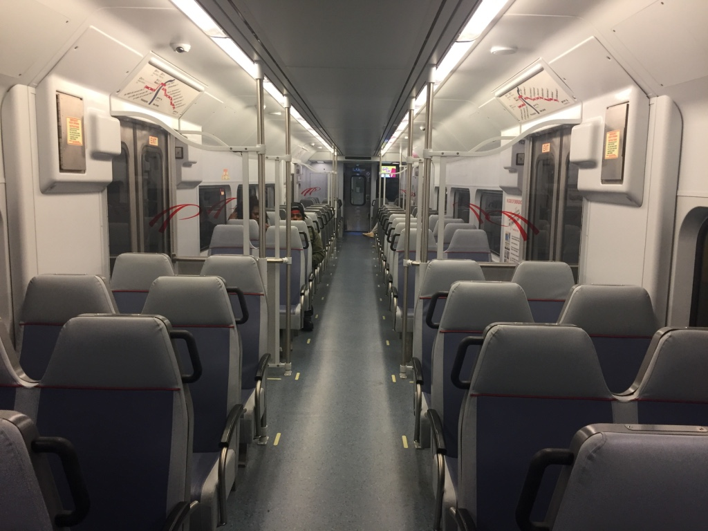 The interior of a Alstom-rebuilt PATCO car waiting in the 15-16 and Locust station